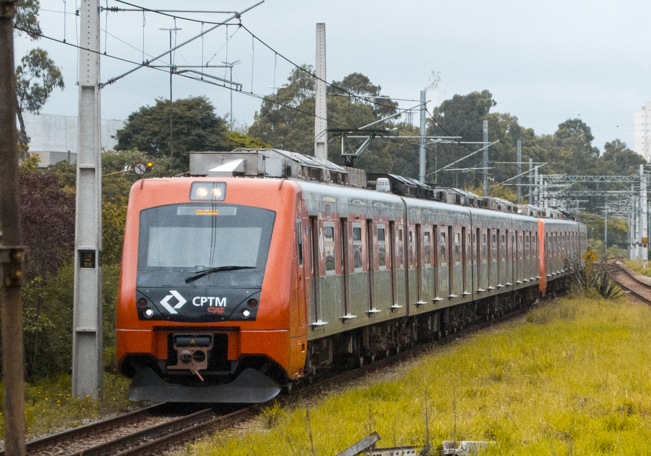 Trem da CPTM